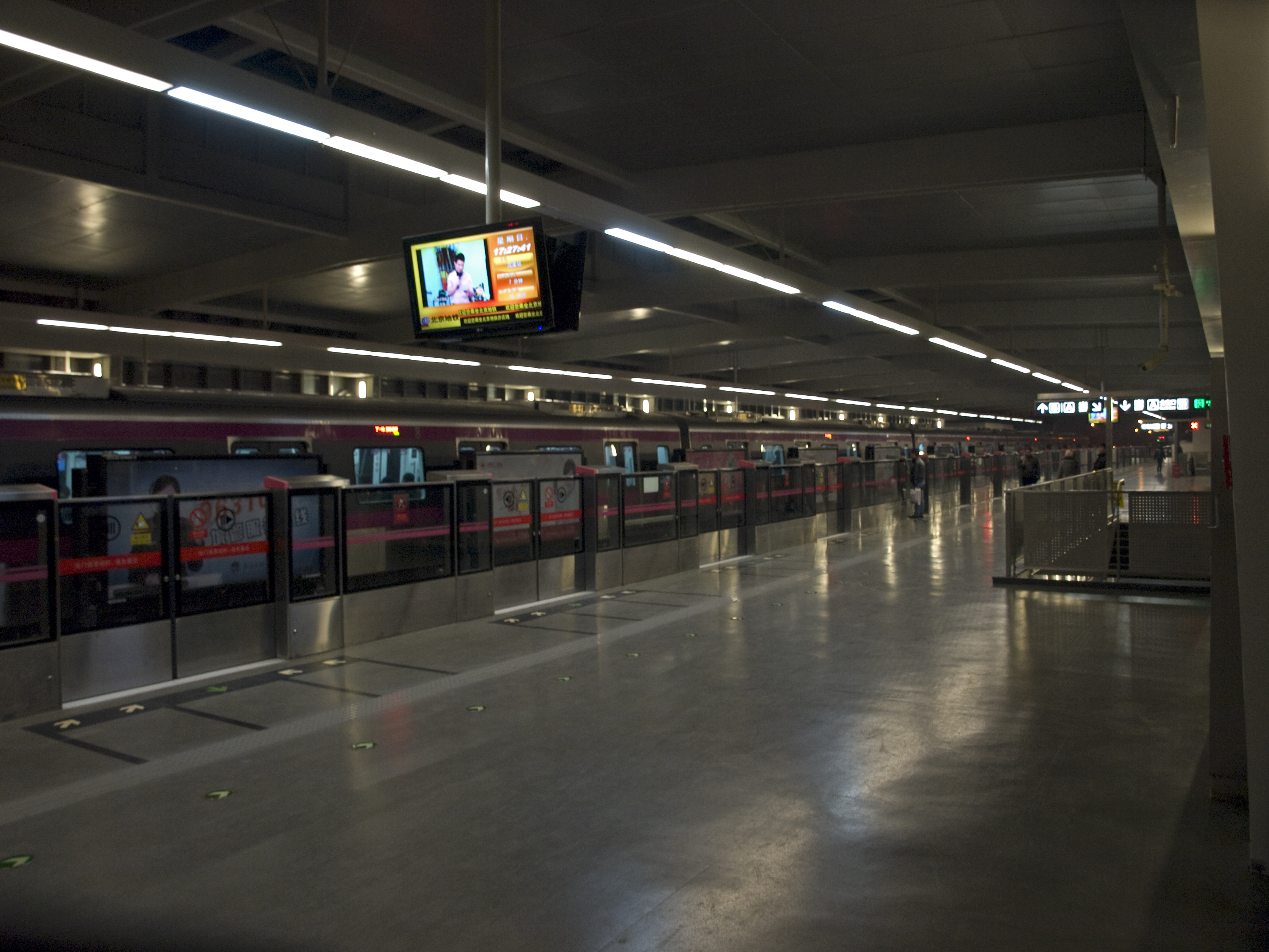 Rongchangdongjie station, Beijing Subway, eastbound platform